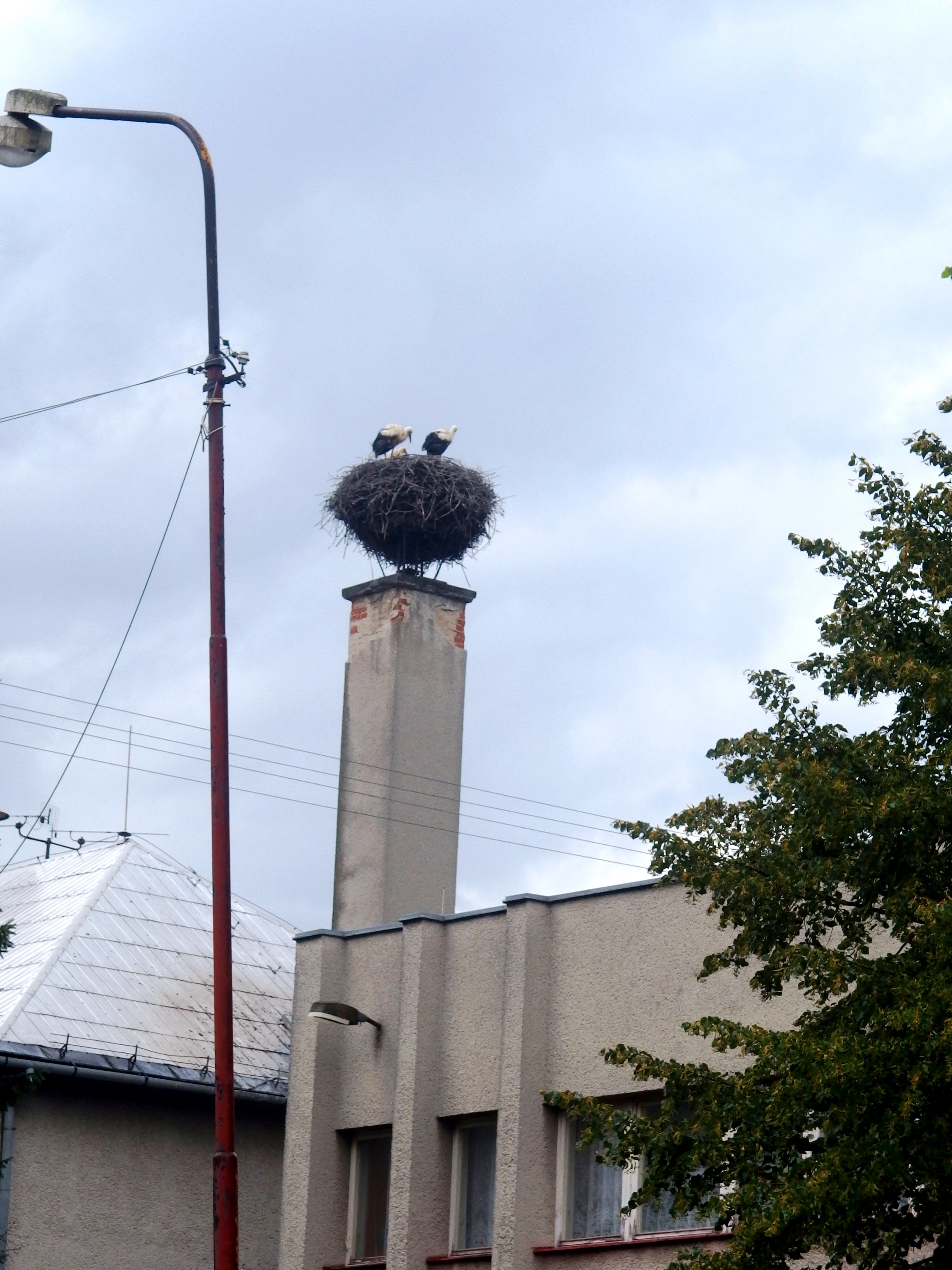 Kopřivnice, Nový Jičín District, Czech Republic, part Mniší.